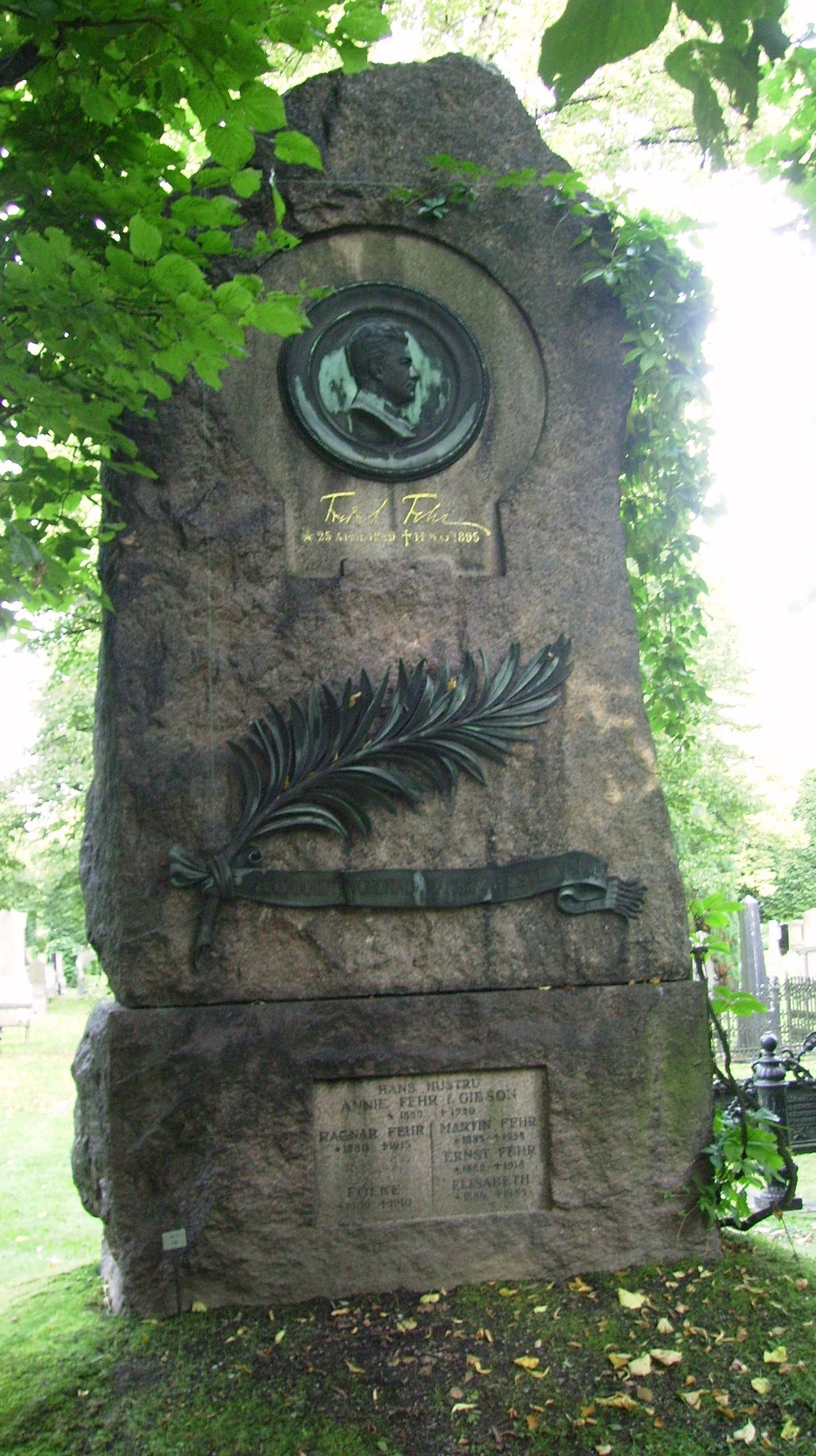 Picture of Fredrik Fehr's grave at Norra begravningsplatsen in Solna